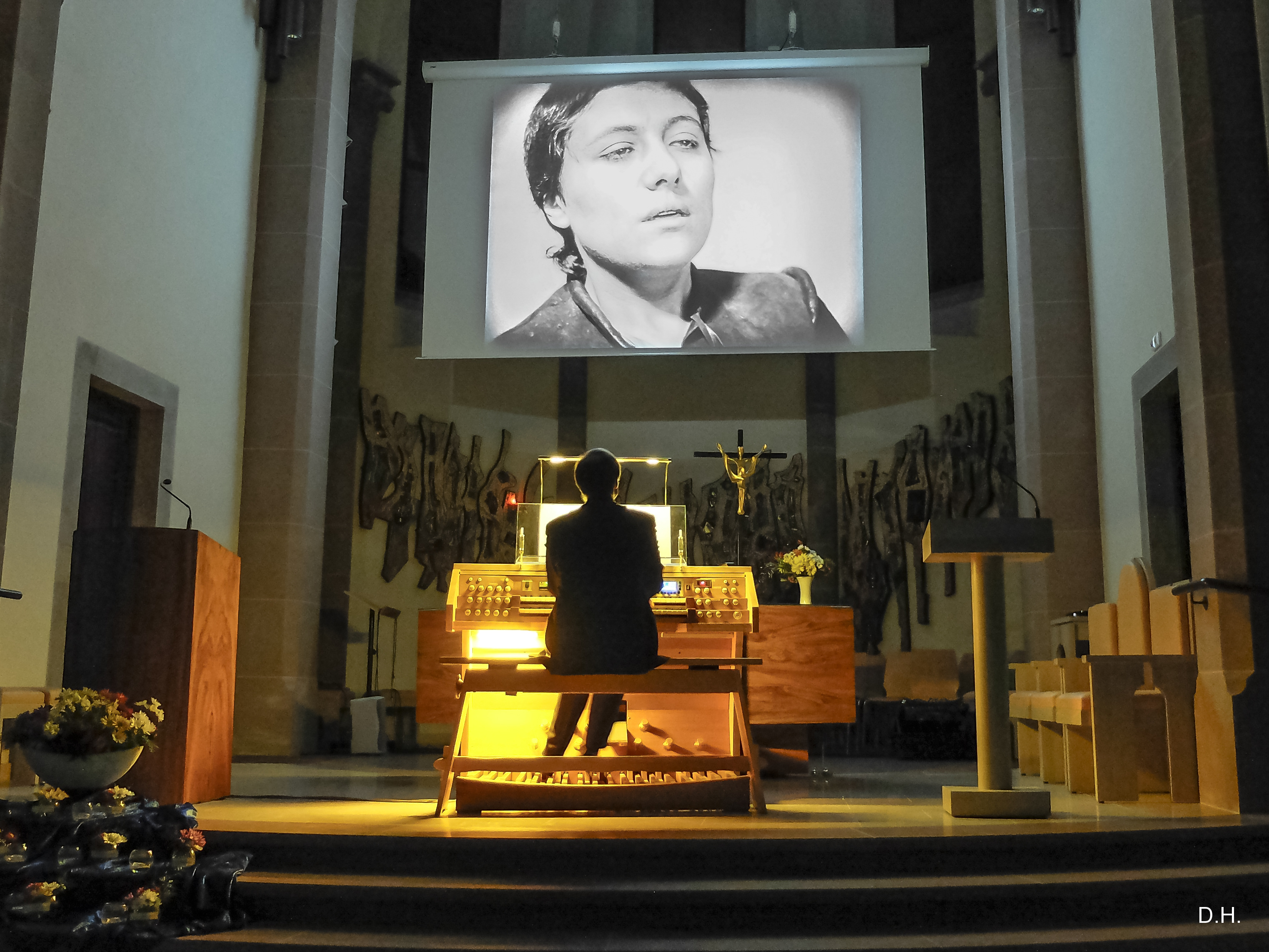 Saint-Denis church in Gerstheim, Alsace. Improvisation on the Kern organ by Pascal Reber during The Passion of Joan of Arc projection.